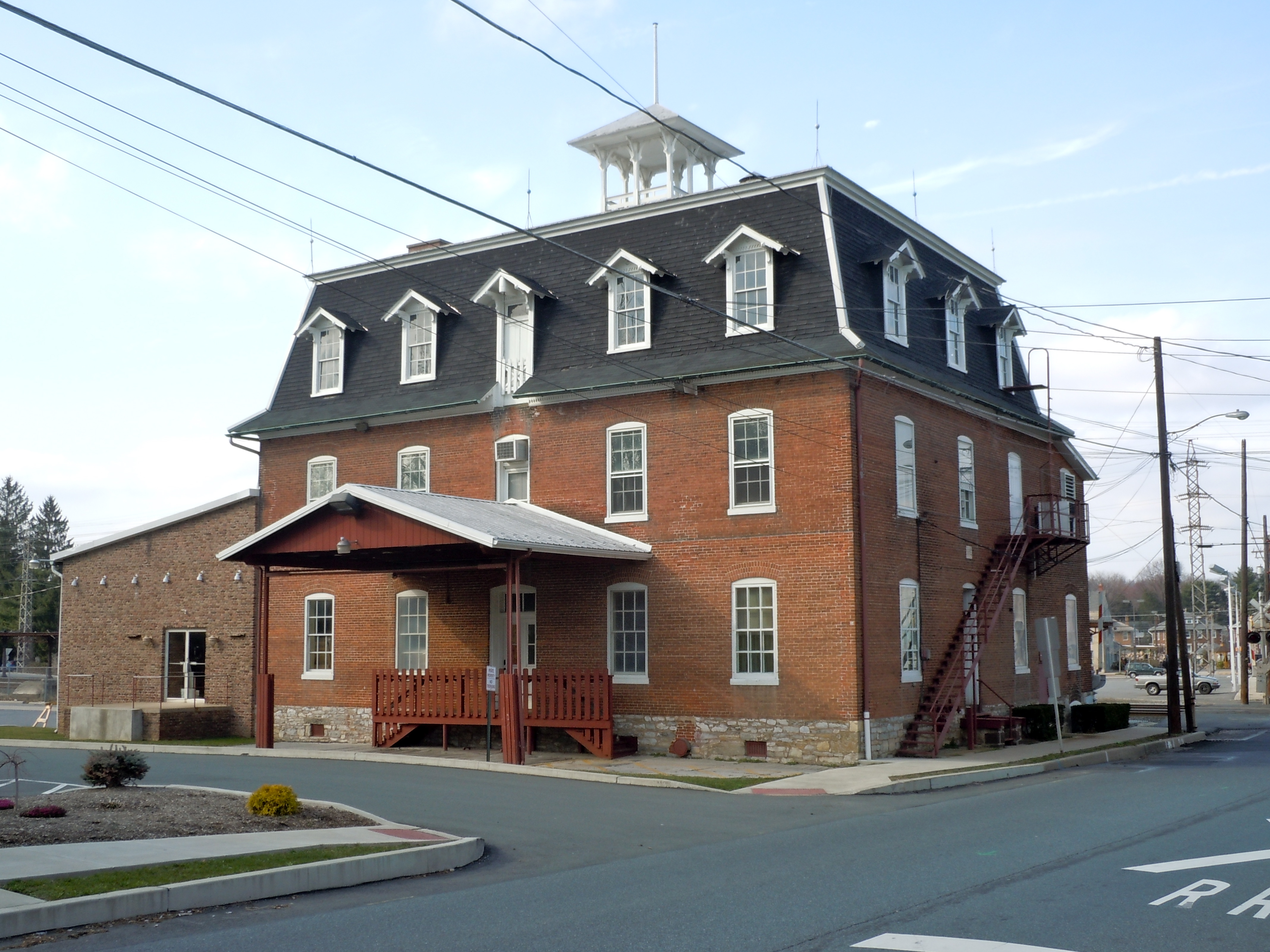 Wertz Mill on the NRHP since November 8, 1990. At 60 Werner Street, Wernersville, Berks County, Pennsylvania, right by the railroad tracks.